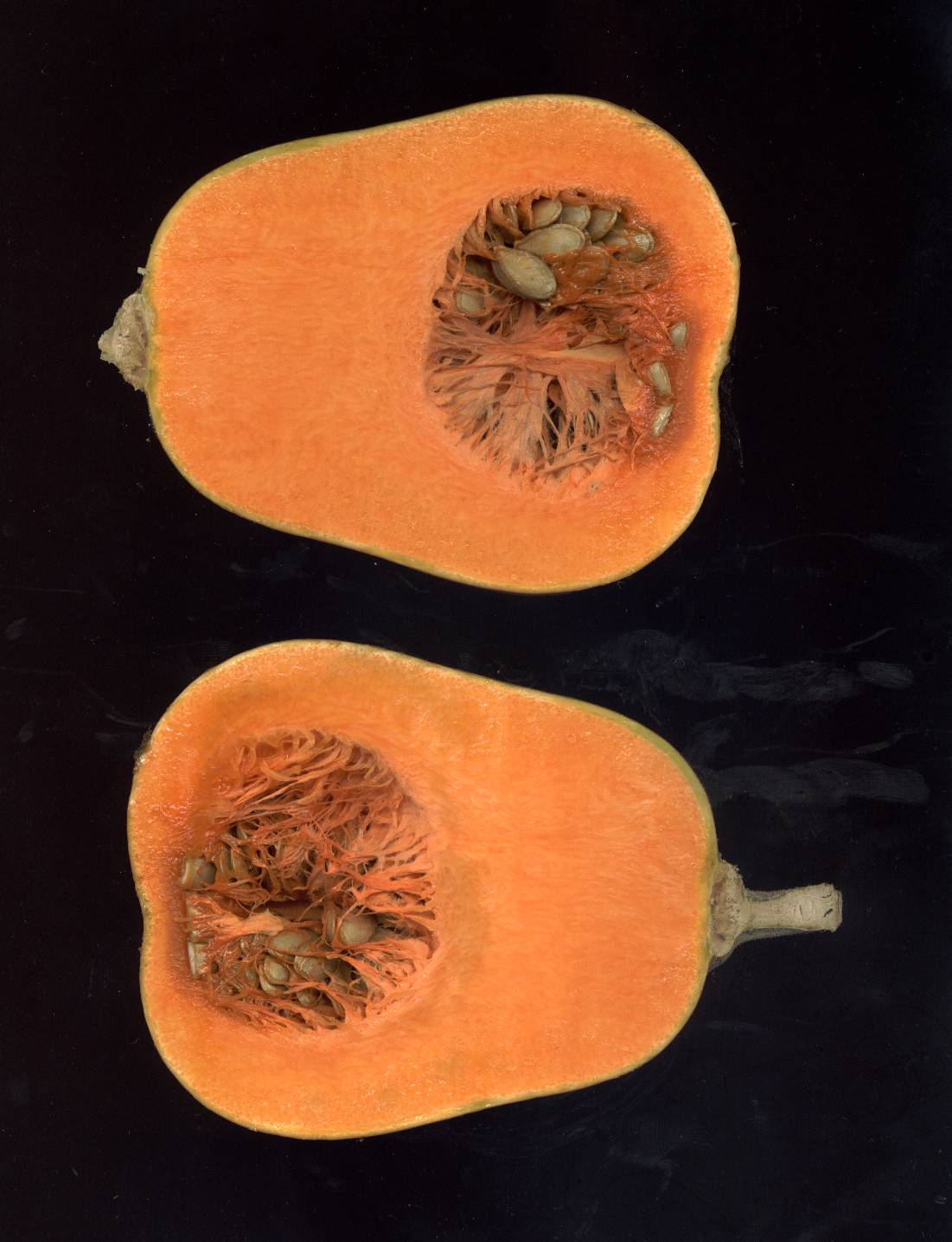 The squash was subsequently deseeded, peeled, sliced and eaten raw with hummus. Delicious.squash